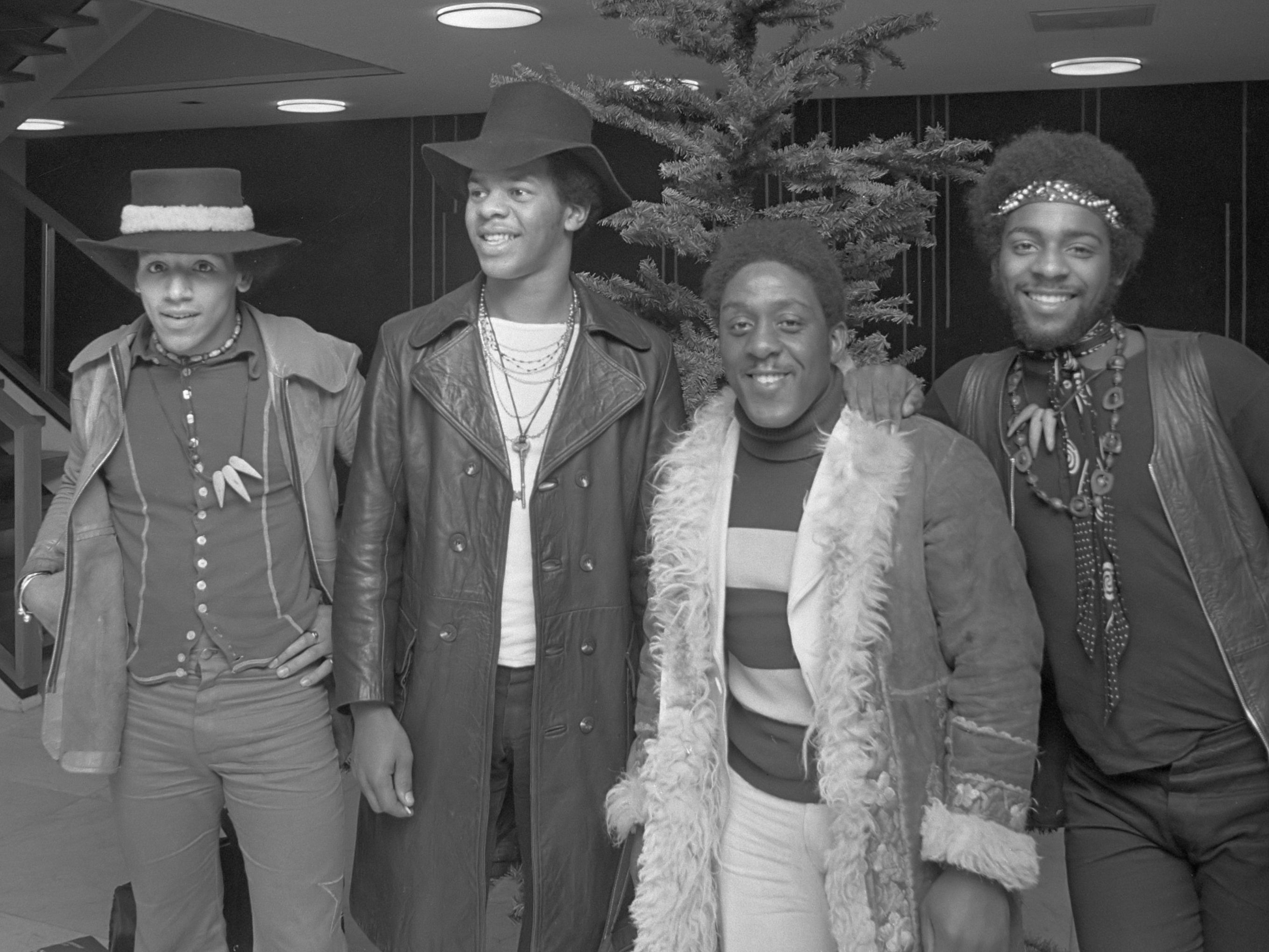 Pop group The Real Thing arrive at Schiphol Airport in Amsterdam on 13 December 1972 for a UNICEF performance